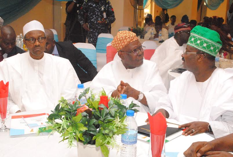 General Muhammadu Buhari, Chief Bisi Akande and Governor Ajimobi